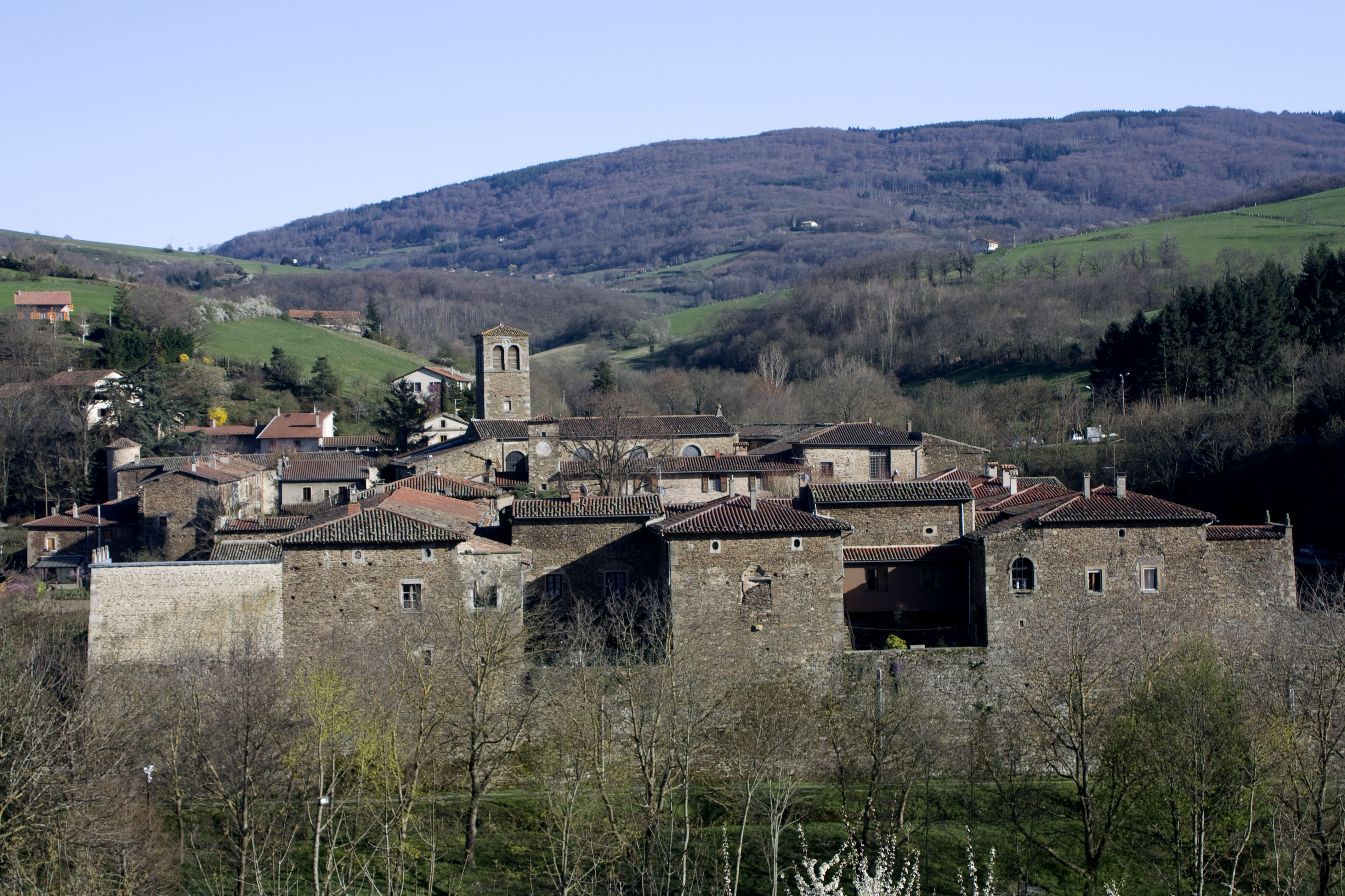 General view of the Carthusian monastery.